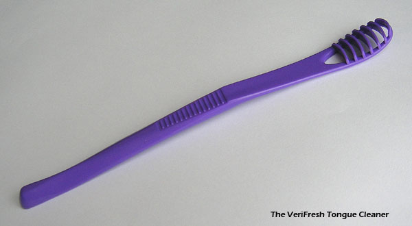 Example of an Ergonomic Tongue Cleaner